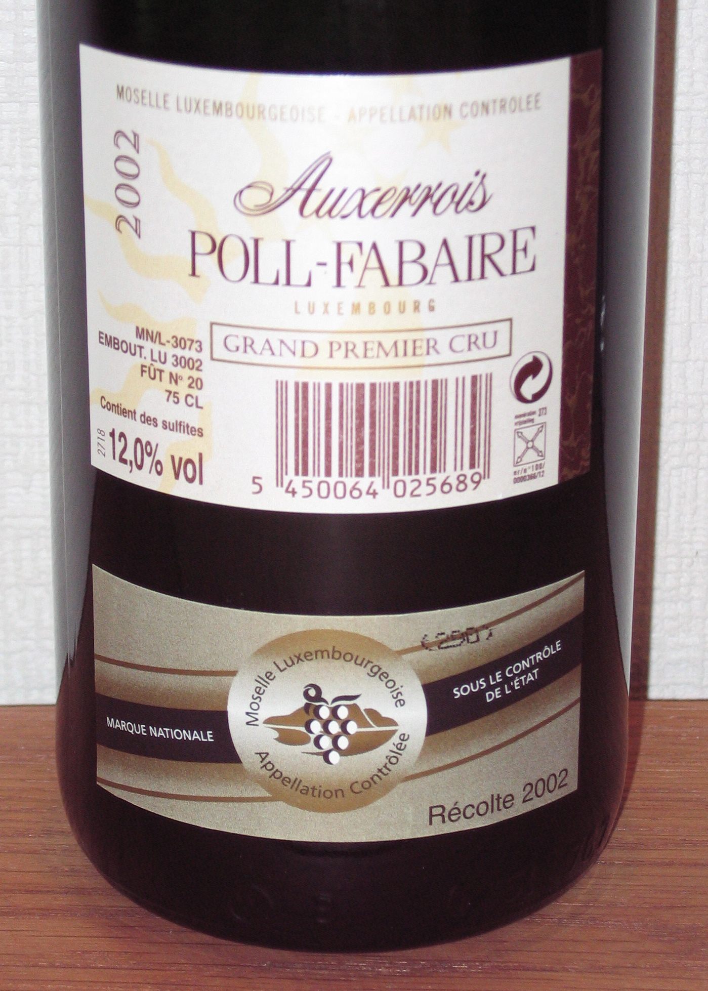 Back label of a bottle of Auxerrois wine from Luxembourg, closeup of label